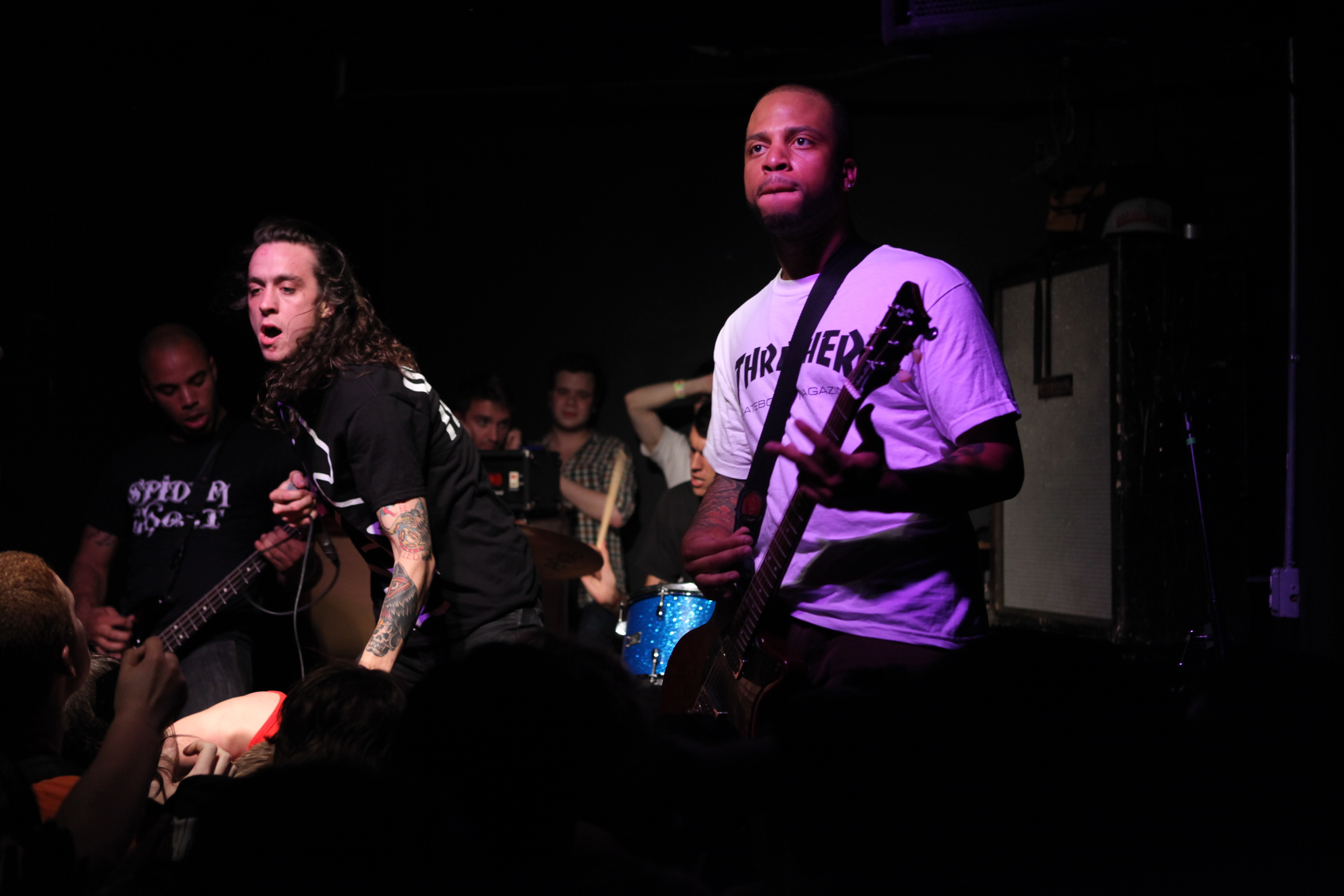 Trash Talk playing in Brooklyn, New York. May 21, 2010.